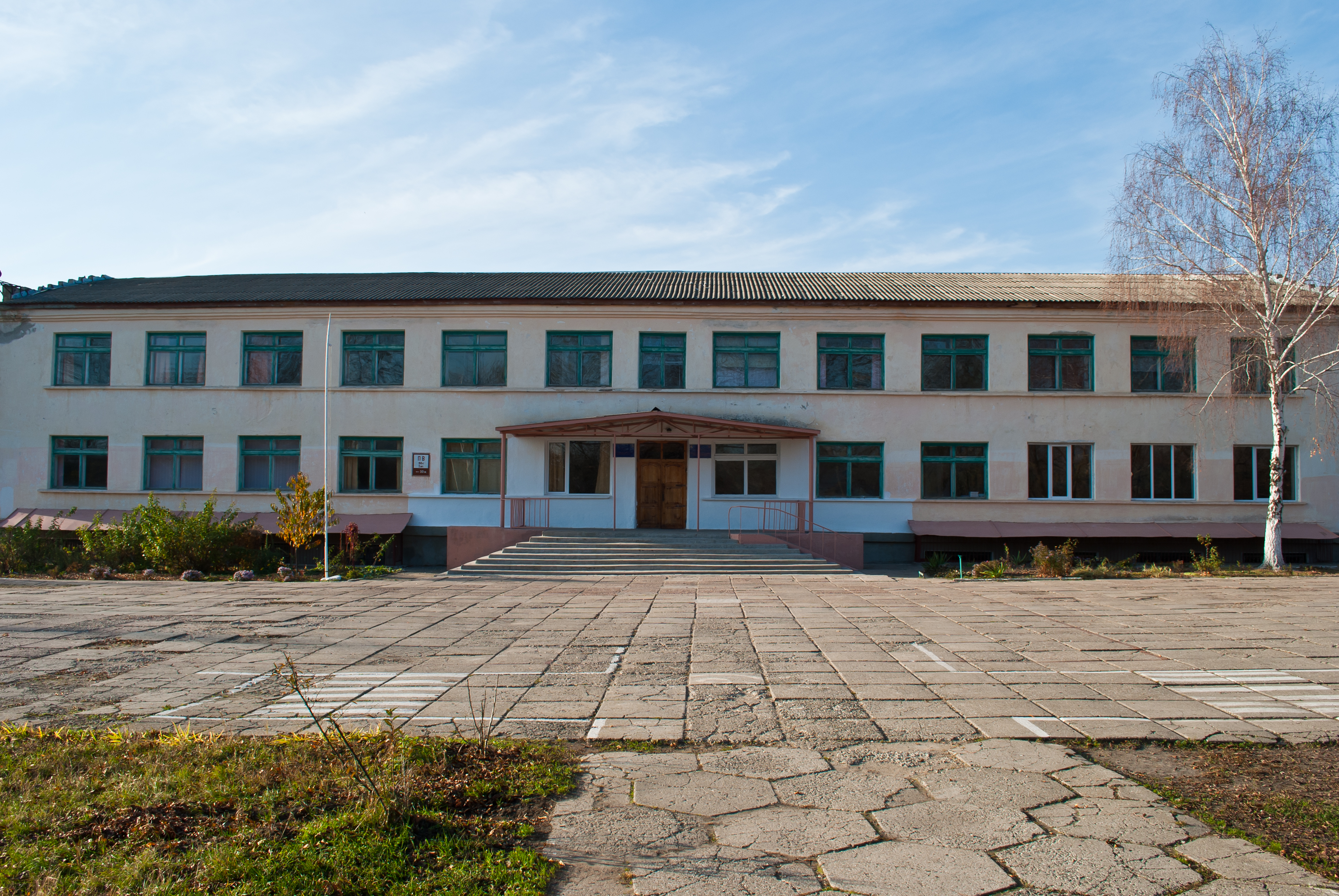 Secondary school in the village Denisovka (Simferopol district, Crimea).